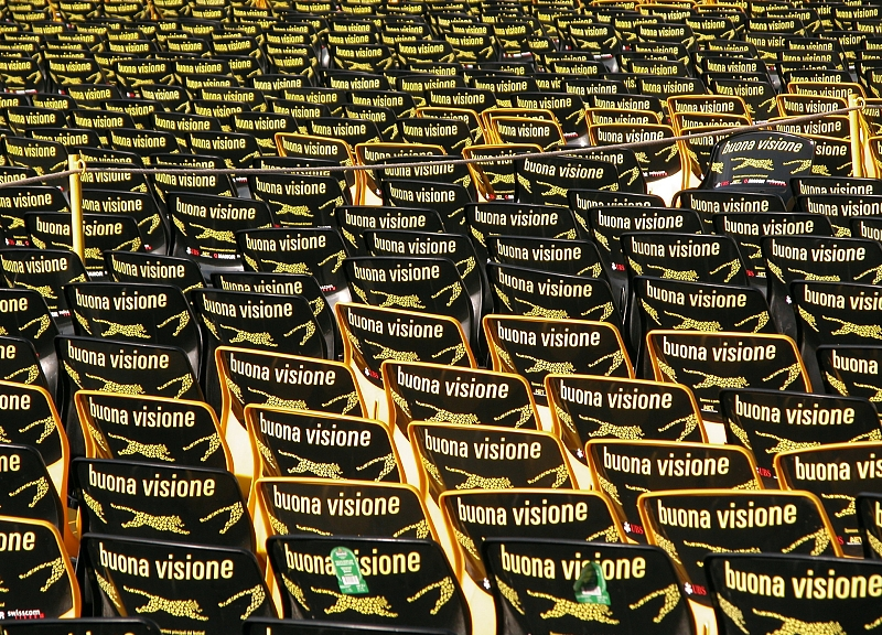 Chairs in the Piazza Grande for a film screening.